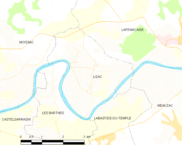 Map of French municipality Lizac